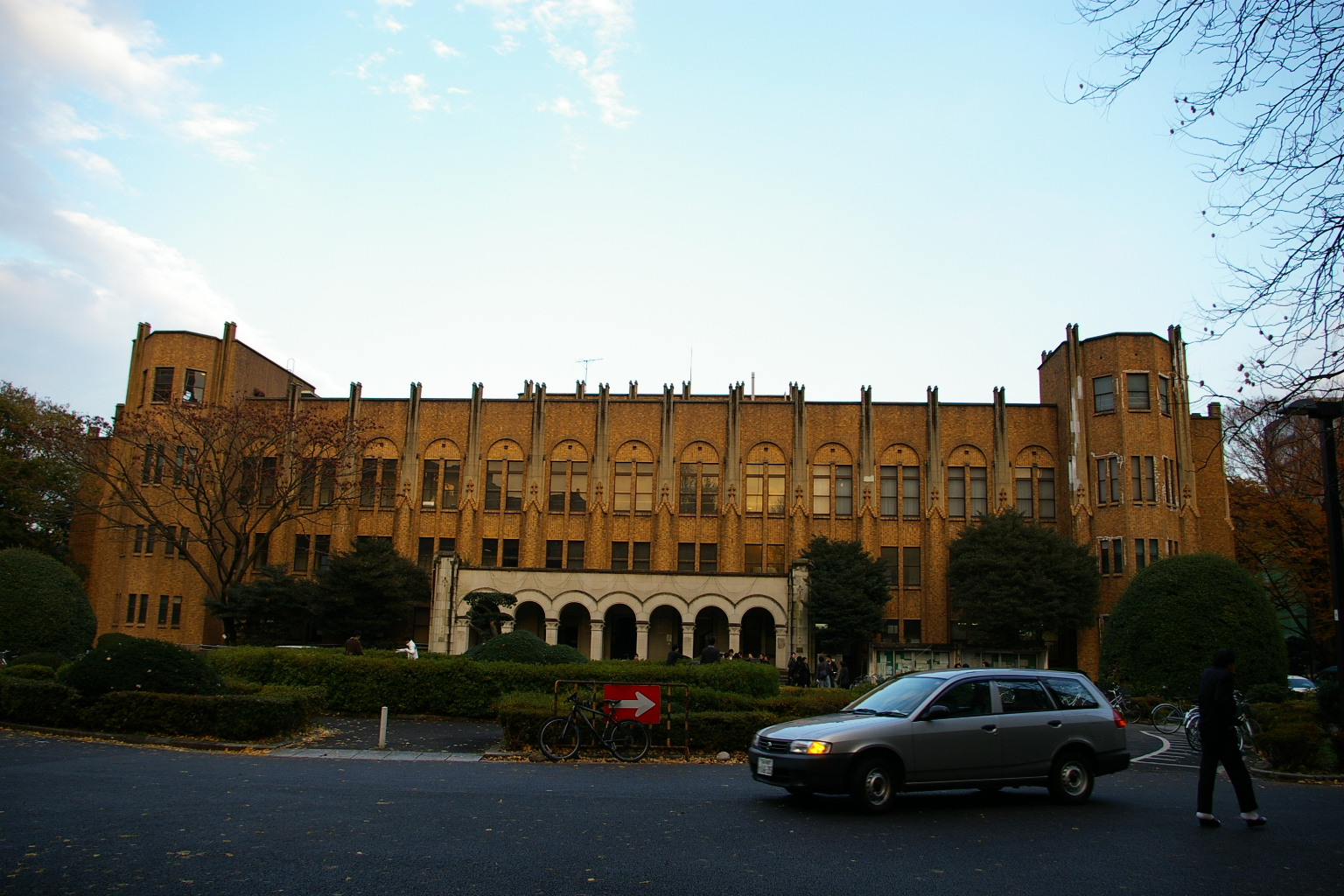 Building #2 of faculty of medicine, the University of Tokyo